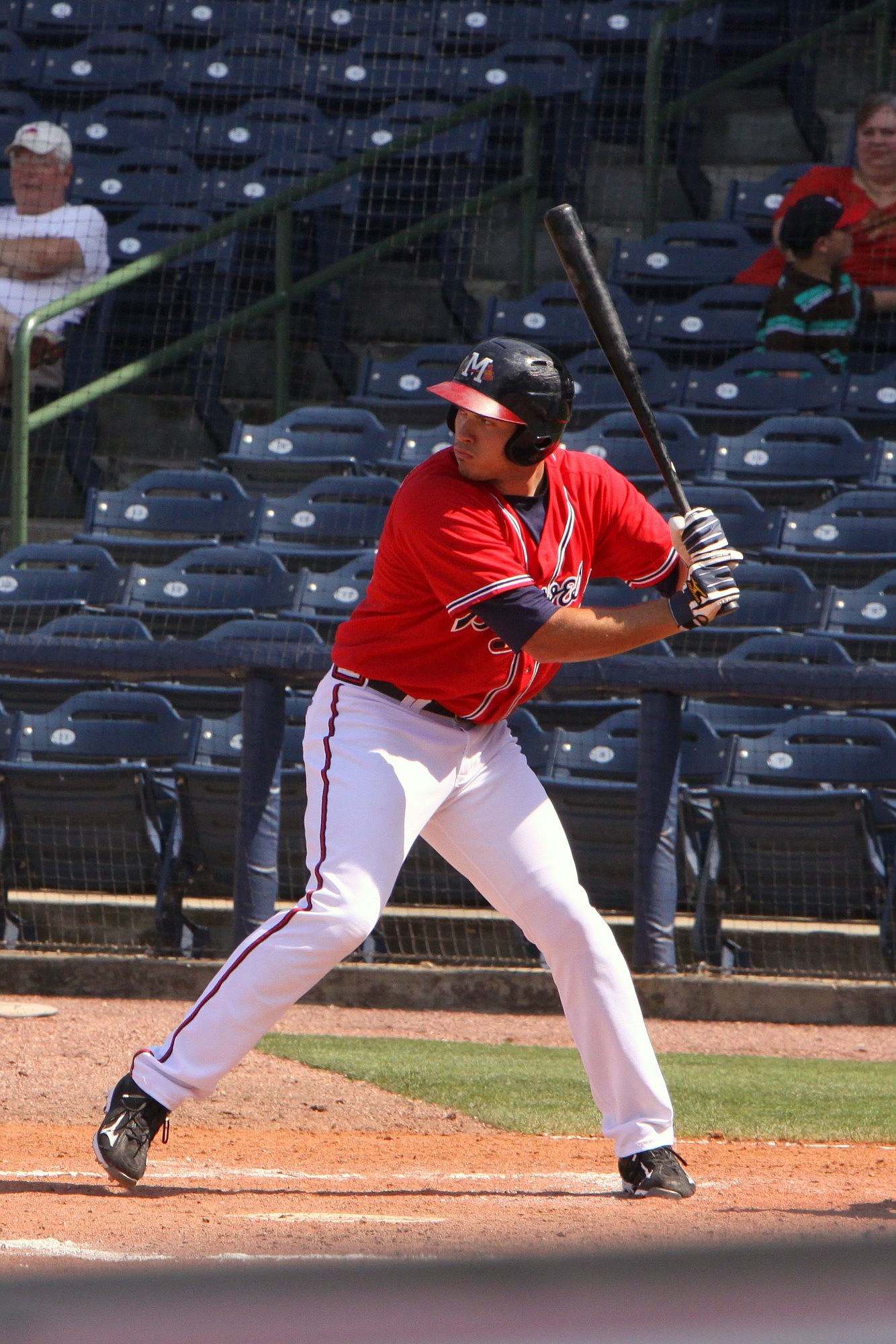 Mississippi Braves outfielder Cody Johnson at Trustmark Park in Pearl, Mississippi.